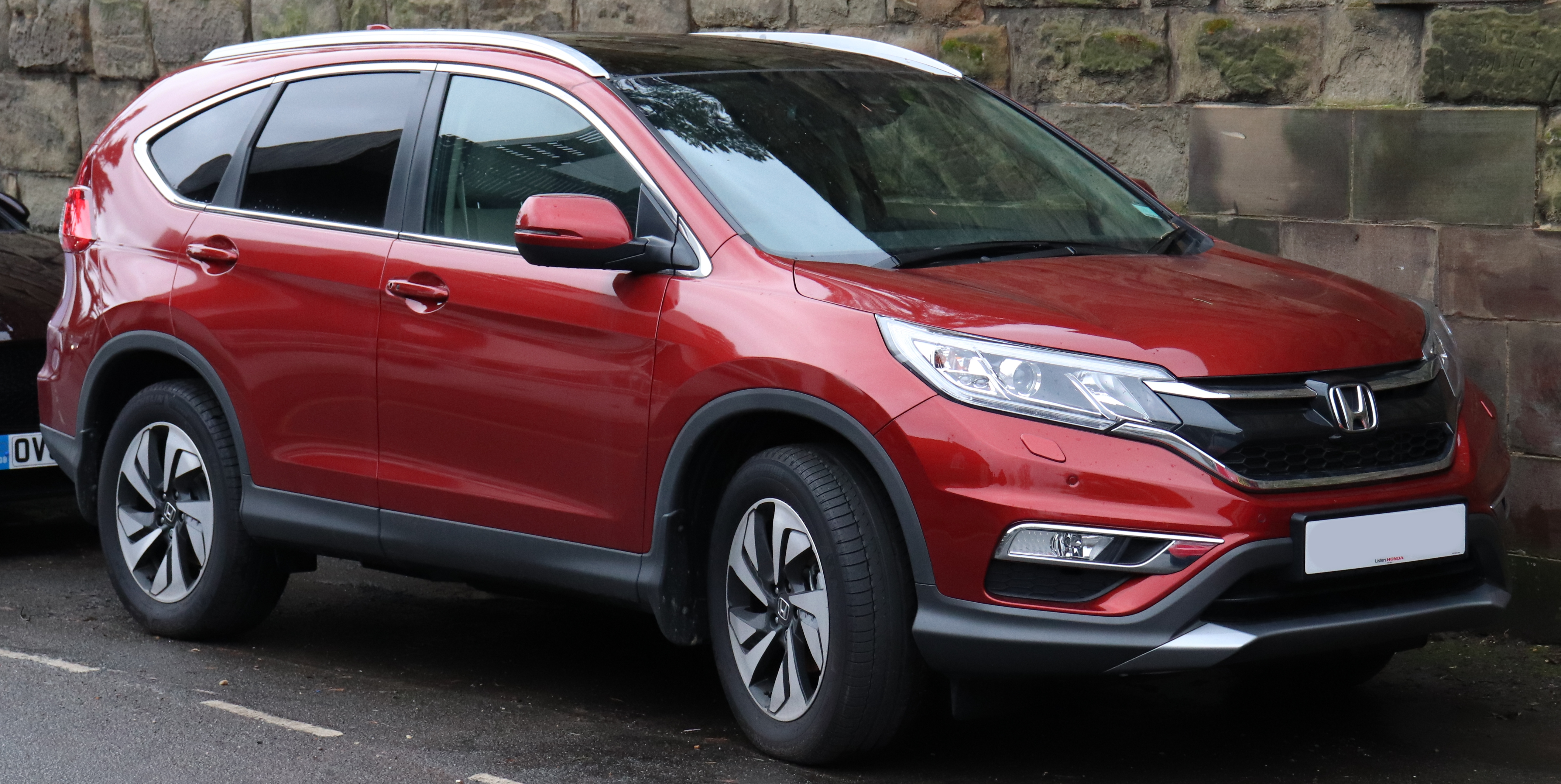 2017 Honda CR-V EX i-VTEC Automatic 2.0 Taken in Warwick